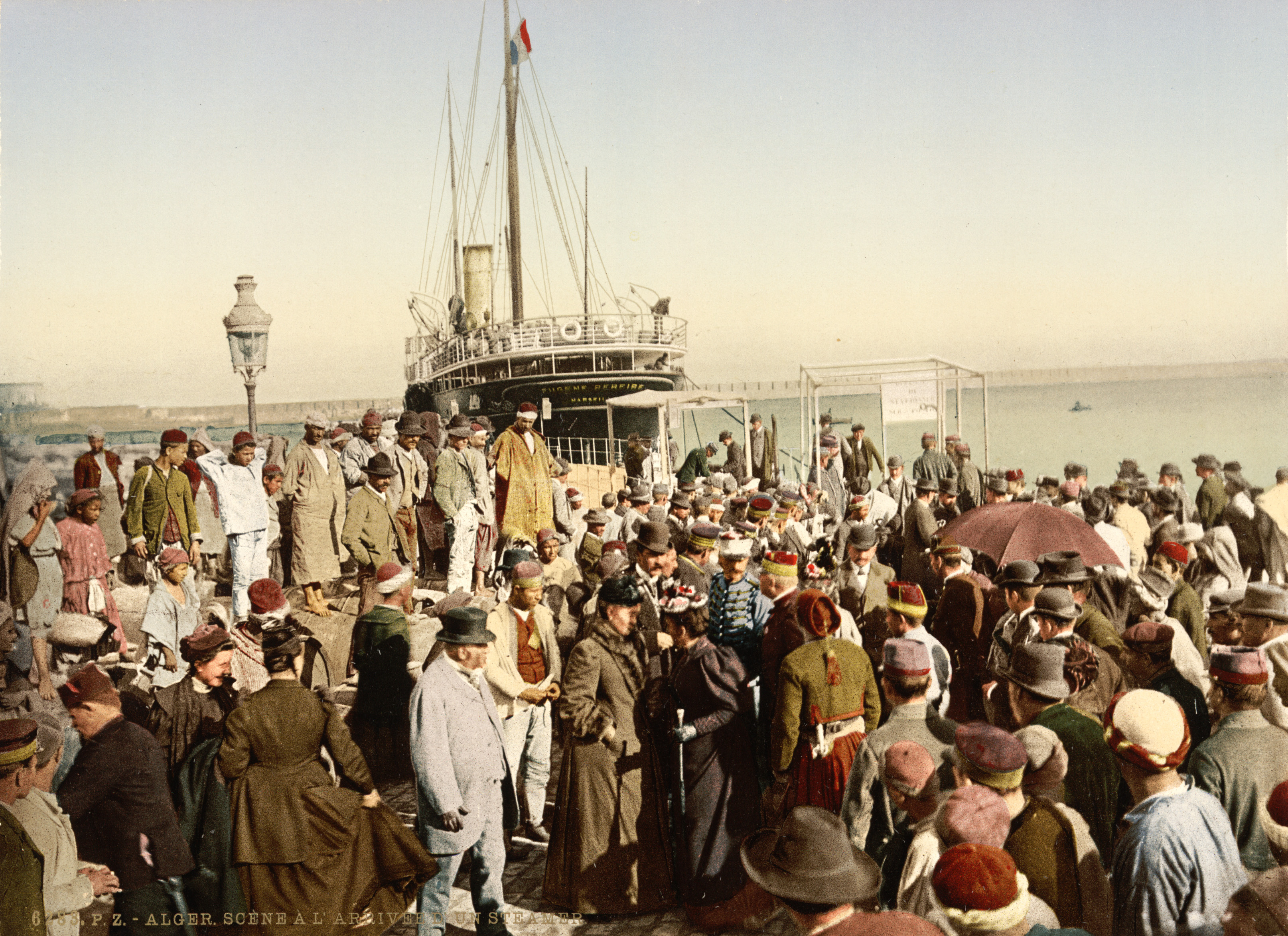 L'Eugène Péreire arrive à Alger en 1899. Disembarking from a ship, Algiers, Algeria. 1 photomechanical print : photochrom, color.